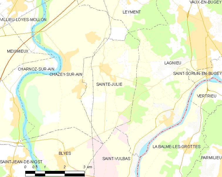 Map of French commune: Sainte-Julie Map commune FR insee code 01366.png